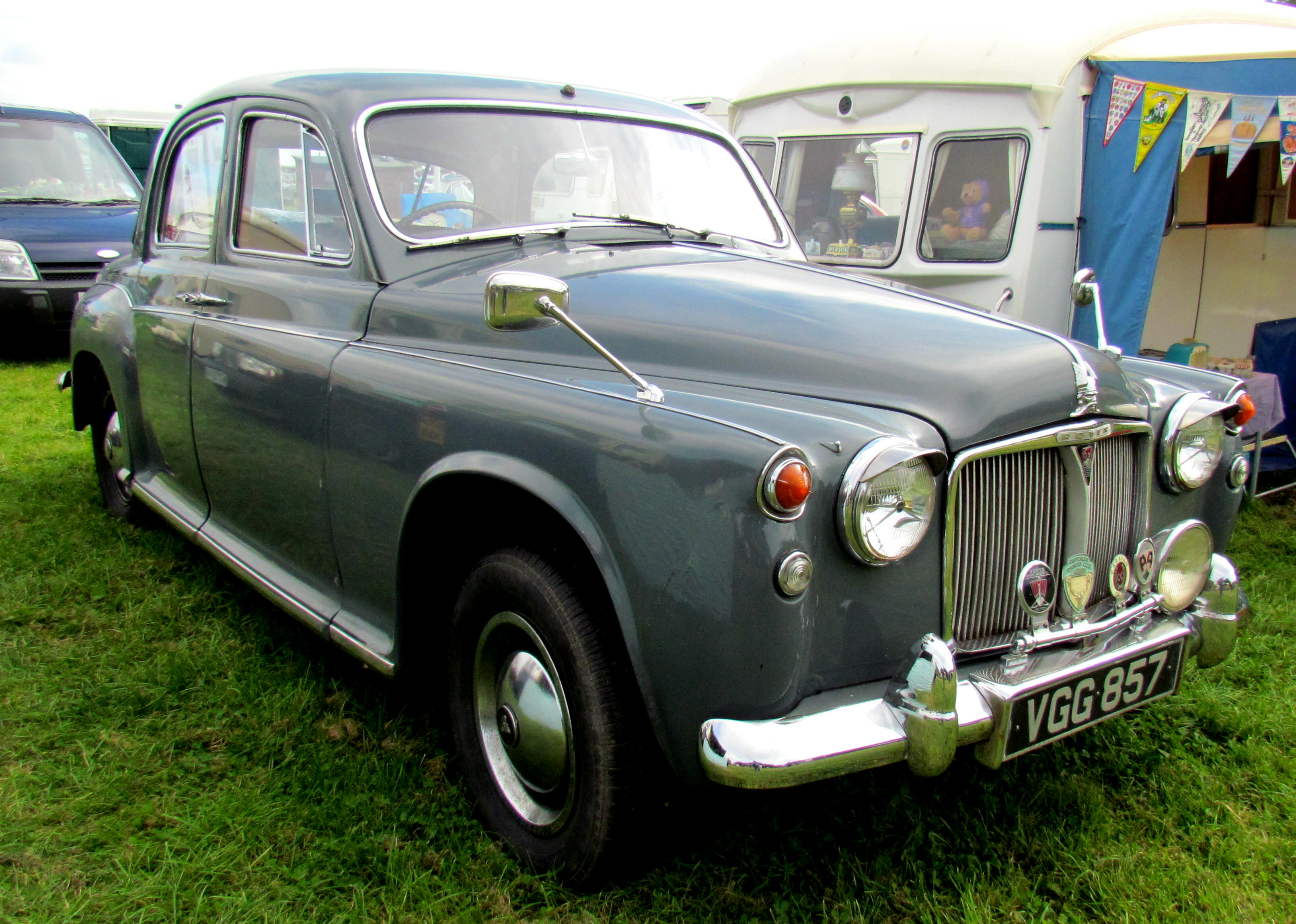 1958 Rover 60 saloon (DVLA) first registered 20 October 1958, 1997 cc Stoke Prior Steam Rally